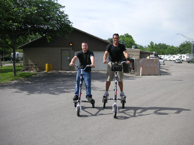 Adam Hunt, Claudio Pagan